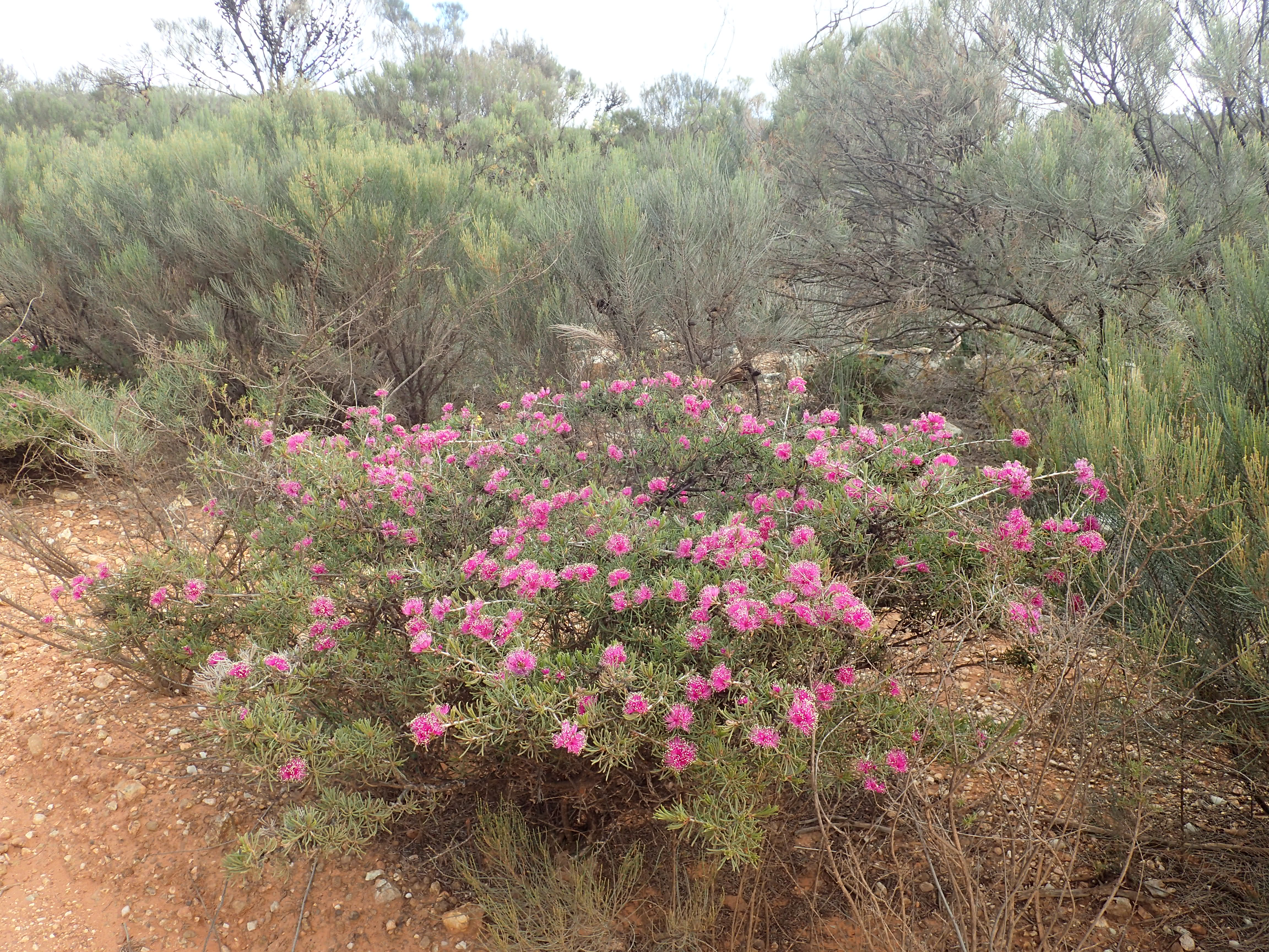 Melaleuca calyptroides in the Watheroo National Park (eastern edge)